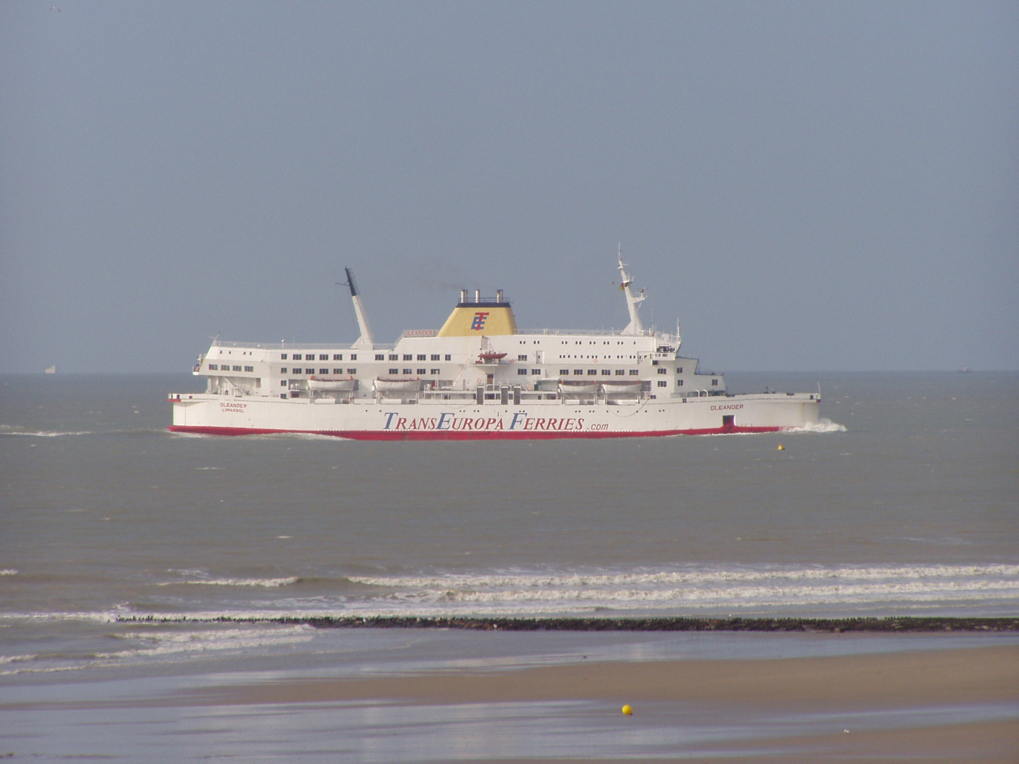 The Transeuropa ferry Oleander approaching Ostend IMO Number: 7820497 MMSI Number: 210422000 Callsign: P3ZJ8 Length: 133 m Beam: 23 m